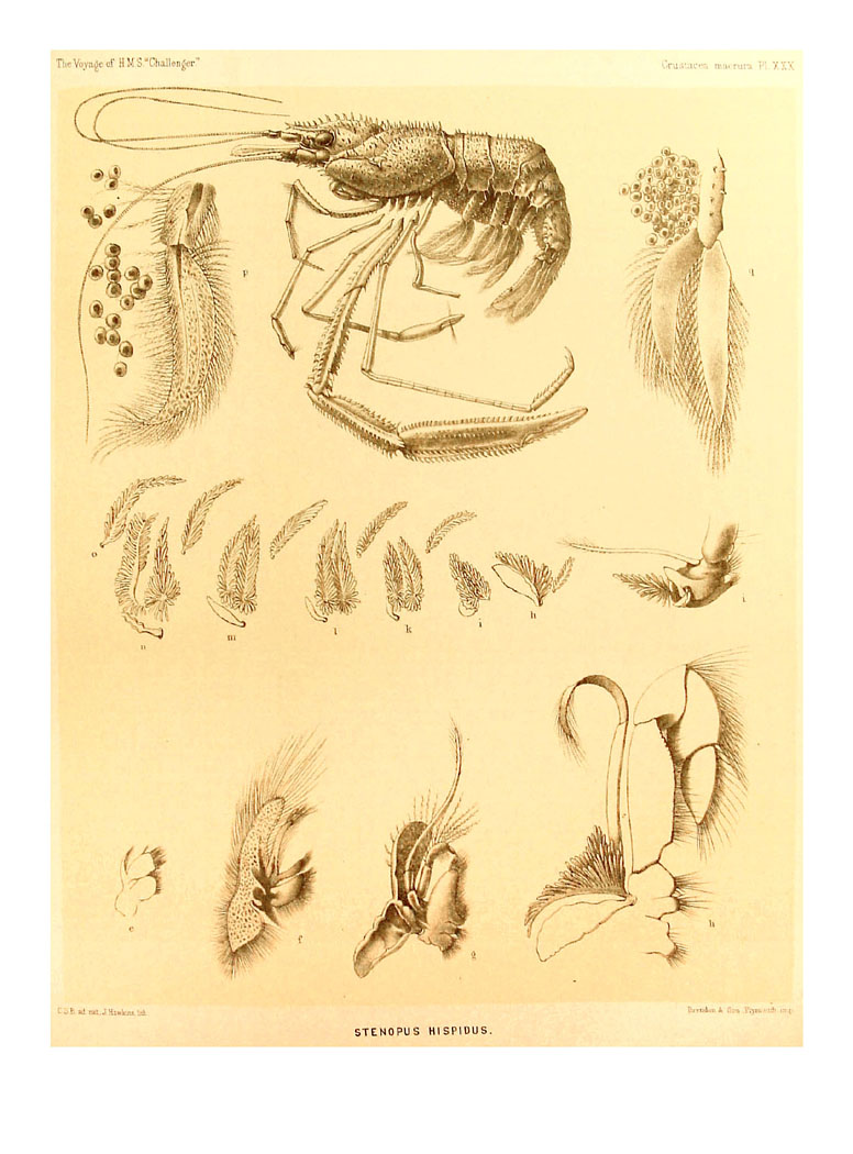 PLATE XXX. Stenopus hispidus, female (length, 45 mm.); enlarged twice(p. 211). e First siagnopod. f. Second siagnopod. g. Third siagnopod. h. First gnathopod. i. Basal part of second gnathopod; enlarged, showing basecphysis, mastigobranchia, and arthrobranchial plume. p. First pleopod. q. Second pleopod. h-o. Diagrammatic plan of the branchial arrangement and proportions.